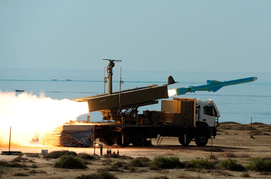 Firing Qadr Missile from a truck launcher in Velayat-90 Naval Exercise.